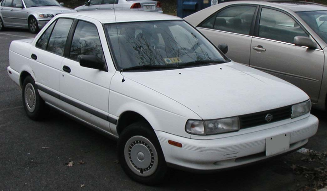 1991-1994 Nissan Sentra sedan photographed in USA.